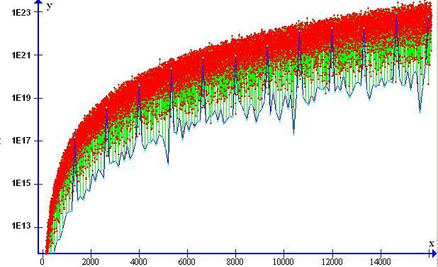 absolute values of Tau function for x up to 16,000 with logarithmic scale